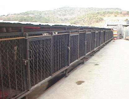 The bear cages in Dalian zoo (Dairen, Luda, Lushun, Port Arthur, Dalniy), Liaoning Province, China. The cages are one square meter in size; three feet tall. Photograph taken in 1997 by the Asian Animal Protection Network, who release all their images under a Creative Commons Attribution licence. E-mail to permissions.